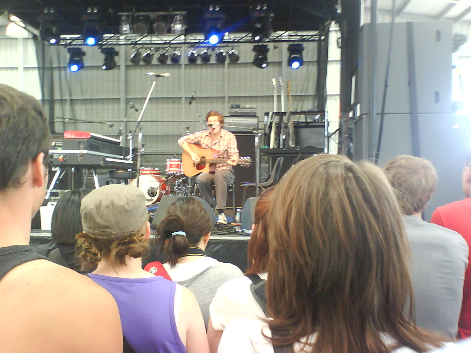 American singer Ace Enders performing at the Australian music festival, Soundwave on 27 February 2009.